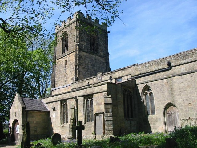 Nave, west tower, south porch and part of the chancel of All Saints' parish church, Brailsford, Derbyshire, seen from the southeast